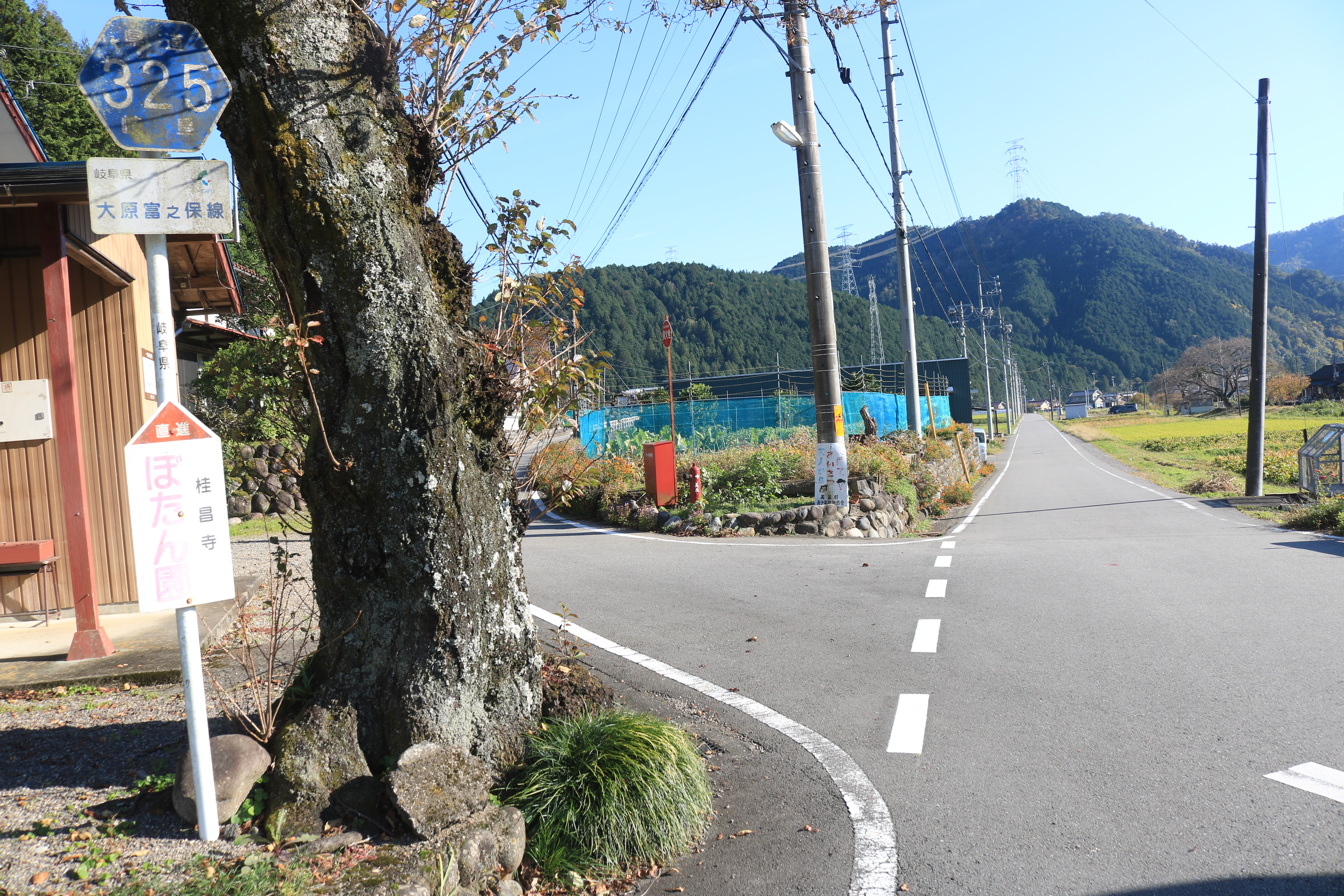 Gifu Prefectural Road Route 325 in Ohara, Minamichō, Gujō, Gifu Prefecture, Japan.